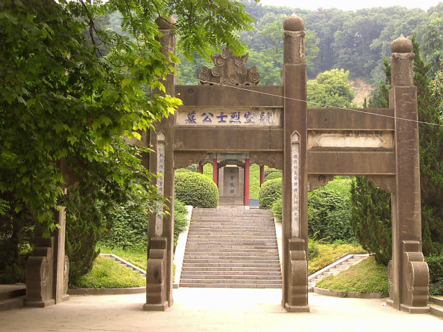 航空烈士公墓 牌坊 2004年6月5日撮影 撮影者:権作Monument to the Aviator Martyrs in WWII, Nanjing 参照：